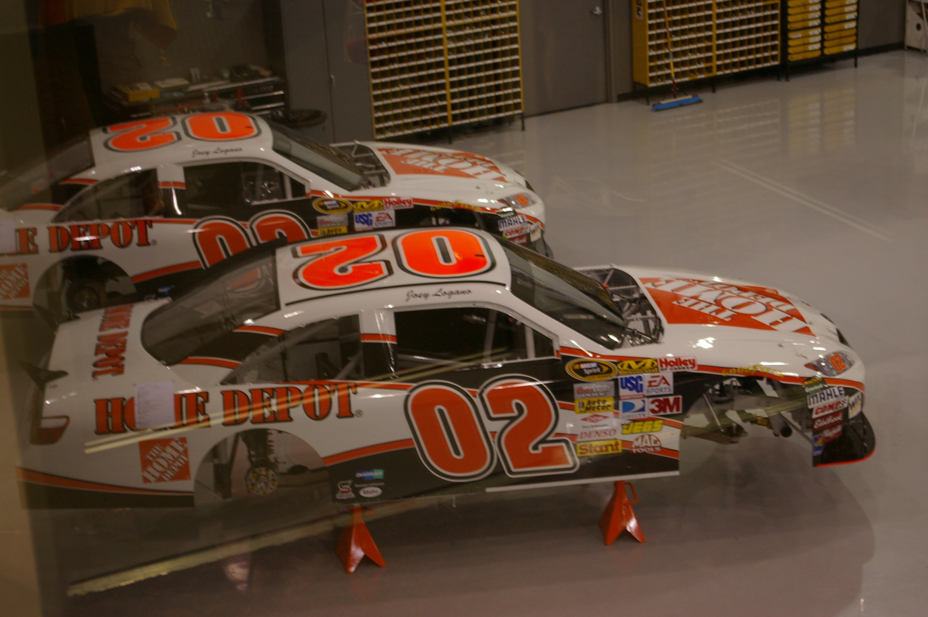 Two No. 02 The Home Depot Toyota Camry race cars in the Joe Gibbs Racing shop, October 11, 2008. Joey Logano drove the No. 02 in 2008 in a limited NASCAR Sprint Cup Series schedule in preparation for his 2009 rookie season.